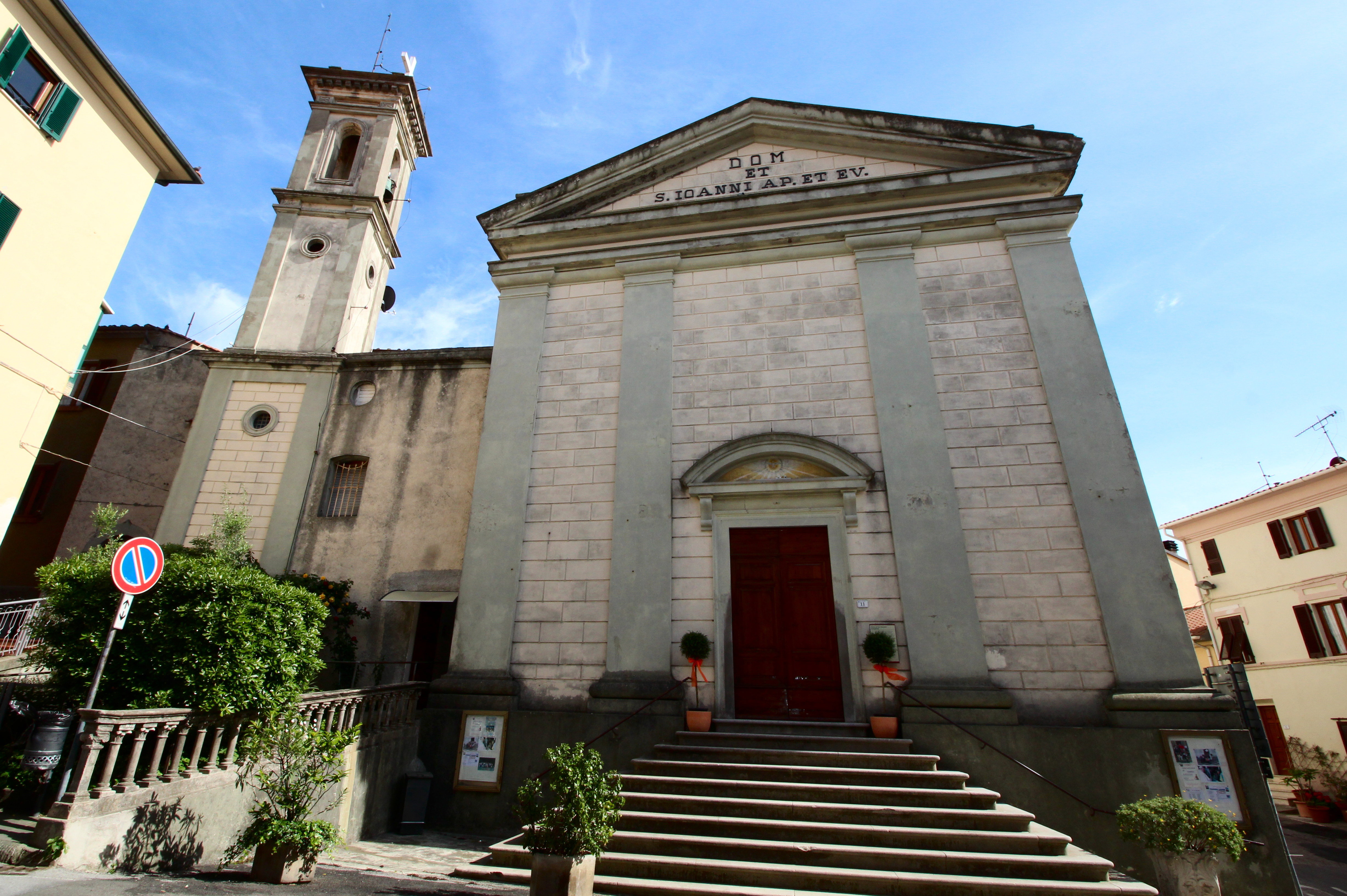 Church San Giovanni Evangelista, Riparbella, Province of Pisa, Tuscany, Italy